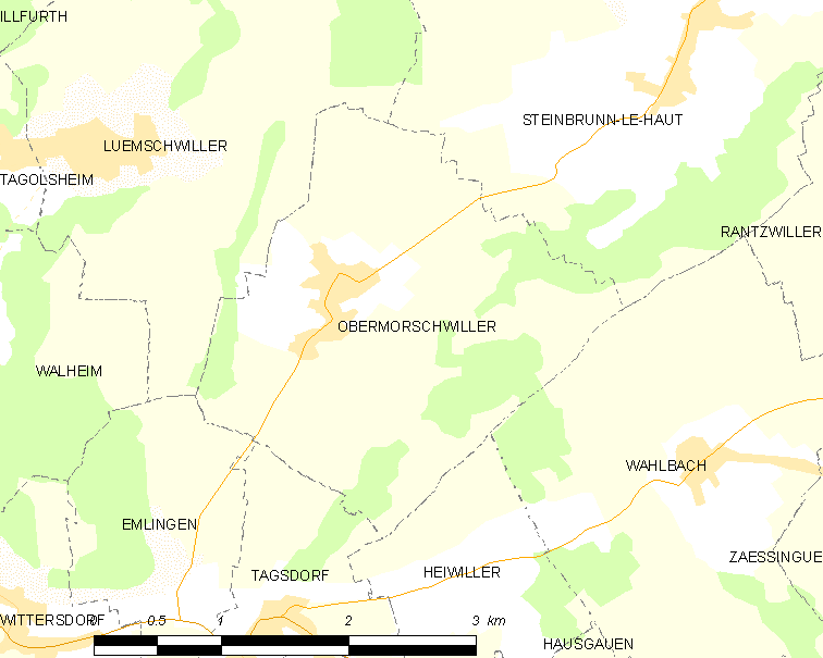 Map of French municipality